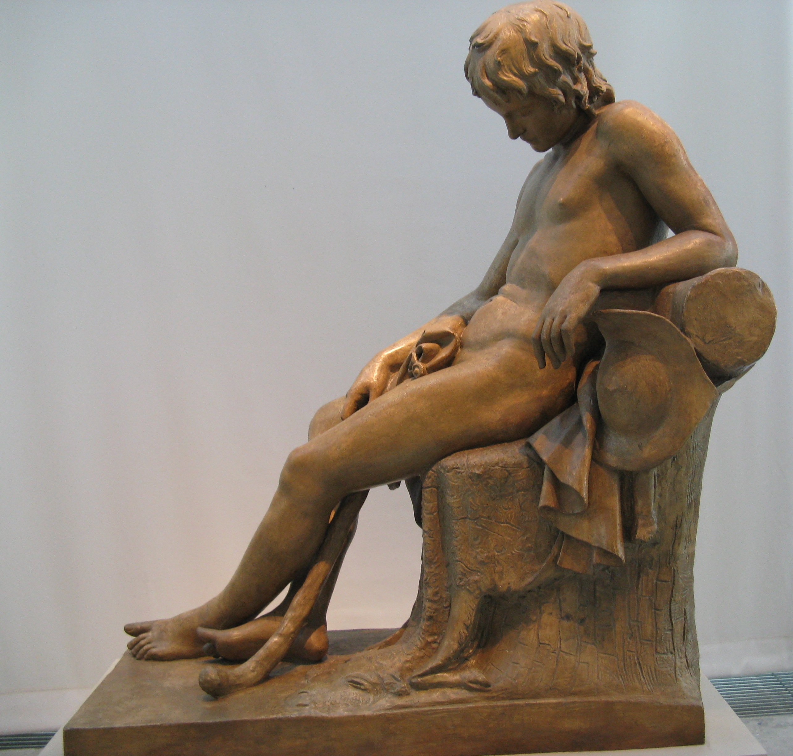 Sleeping Shepherd Boy by John Gibson at Royal Academy of Arts.